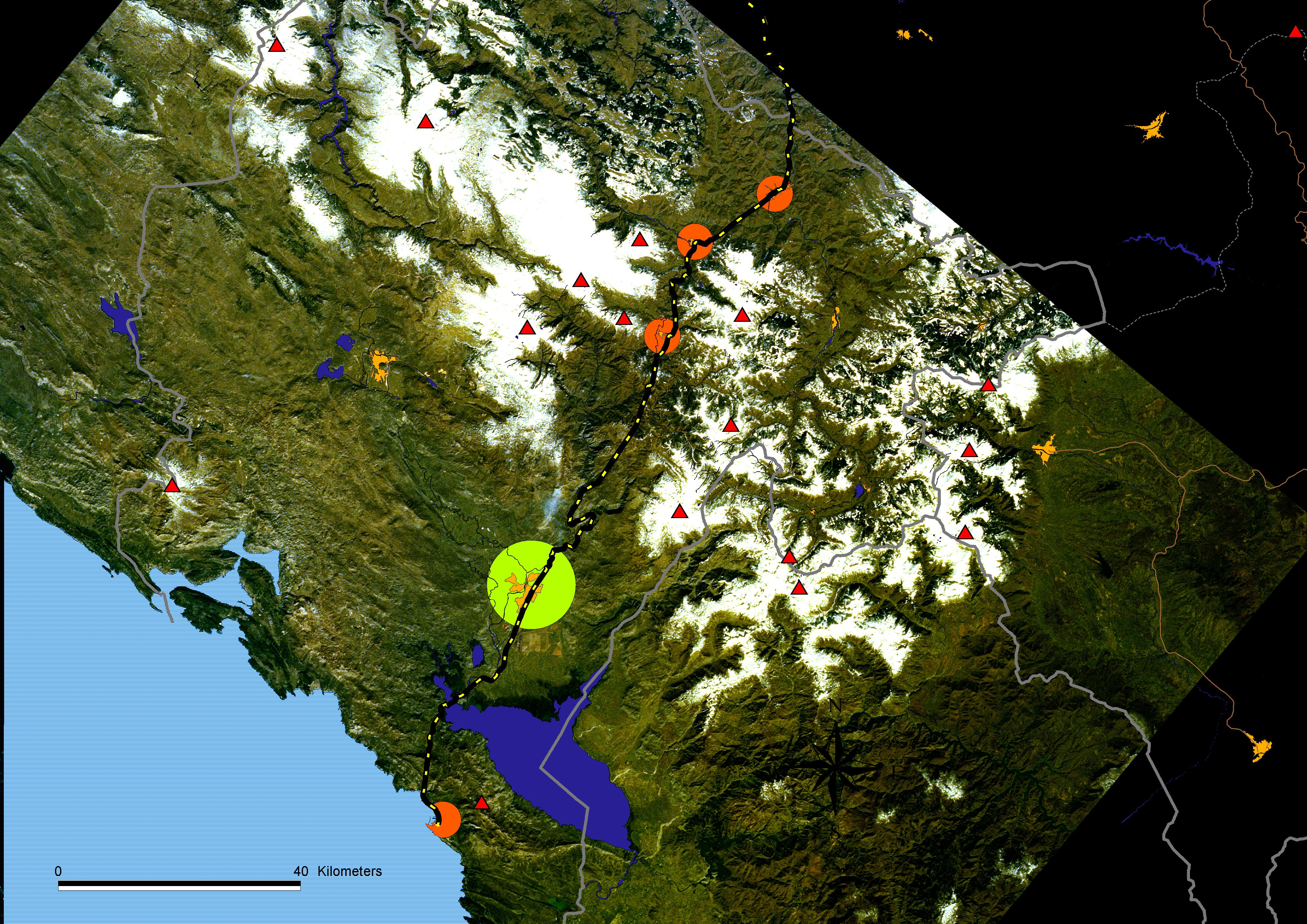 BB railroad Dinaric alps